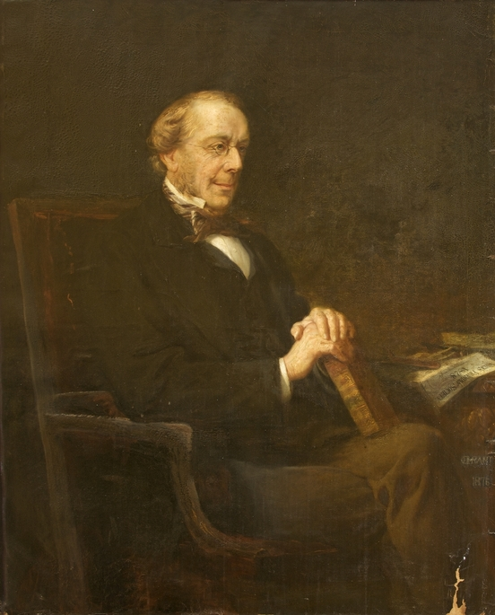 Portrait of Thomas H. Sotheron-Estcourt (1801–1876), British Conservative politician.